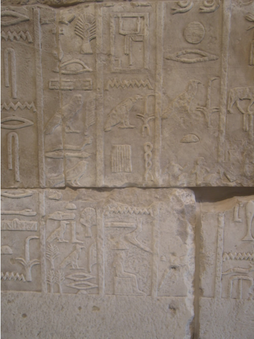 Inscription in the mastaba of Metjen, mentioning the king's mother Nimaathapi; 3rd/4th Dynasty of Ancient Egypt, Neue Museum Berlin